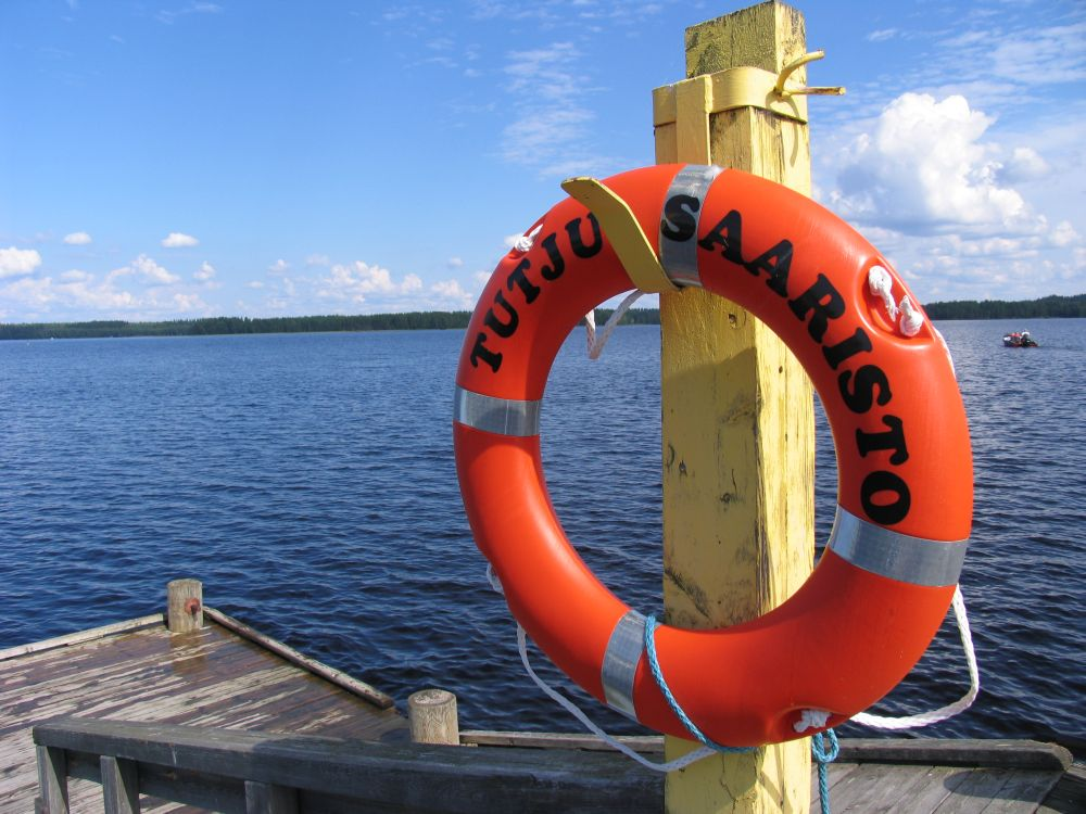 Tutjunniemi, Saaristo harbour, Liperi, Finland